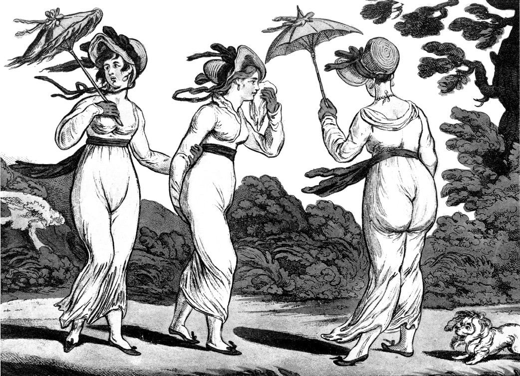 "The Graces in a High Wind", a satirical engraving by James Gillray (published 1810). This caricatures the loosely-clinging Empire/Regency styles, worn with few layers of stiffening petticoats. Many people alive in 1810 would have well remembered the rigid styles of the 1770s, which went to the opposite extreme. For larger color scan, see File:The graces in a high wind by James Gillray.jpg.